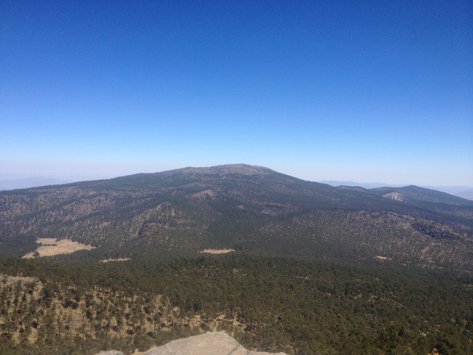 Mount Tláloc (4120 m a.s.l.) is among the highest mountains of Mexico. Here it is seen from the summit of nearby mount Telapón.